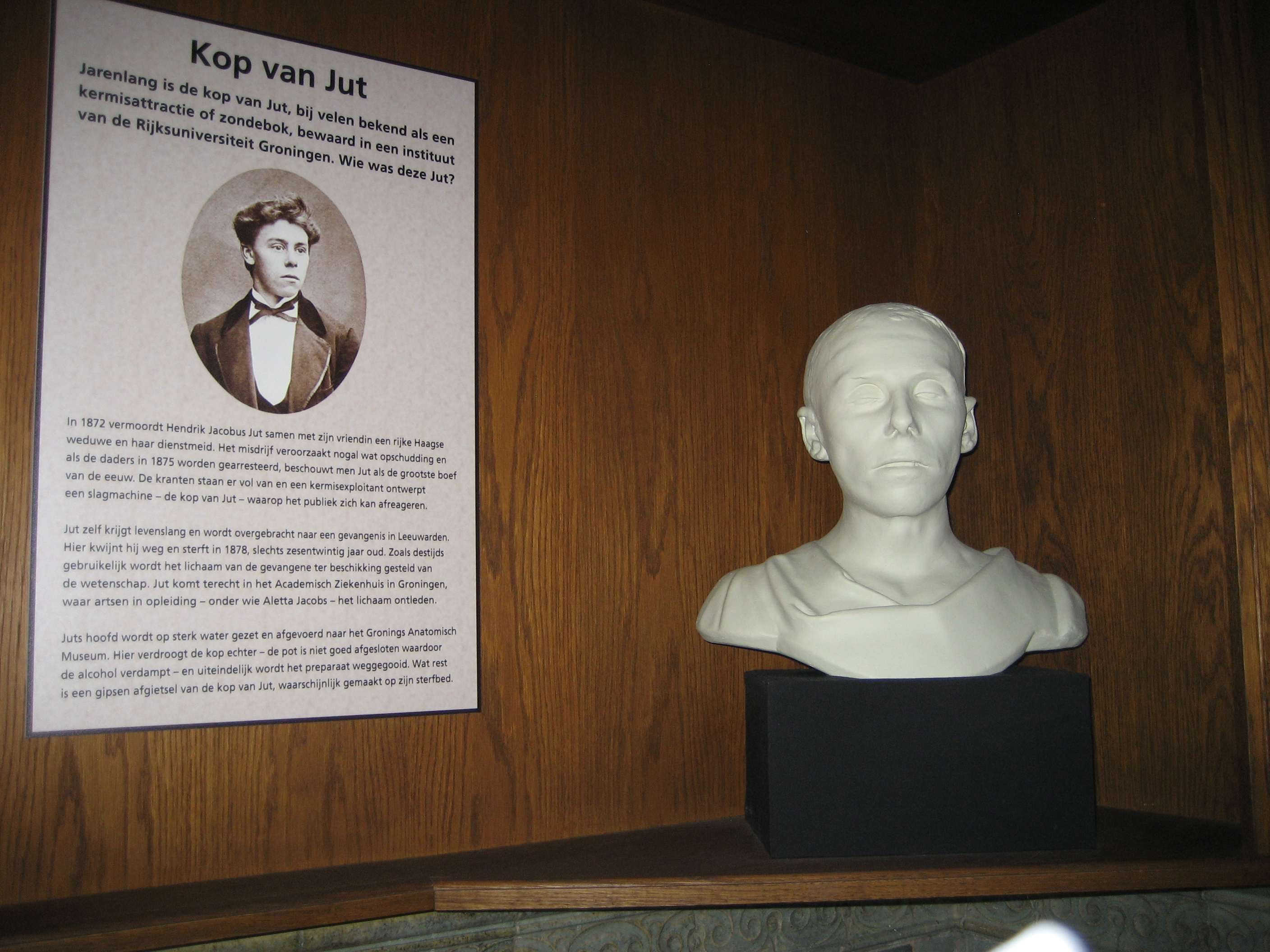 Mold of the head of Hendrik Jut (1851-1878) in University Museum Groningen